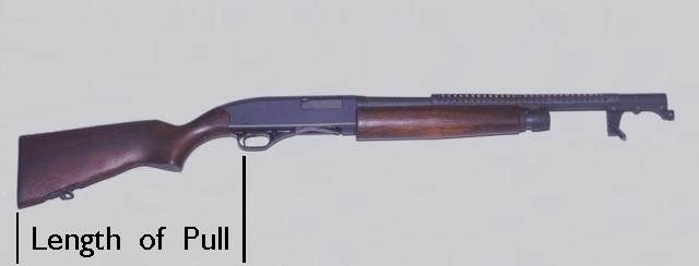 Length of pull is the distance from the trigger to the butt of a rifle or shotgun.